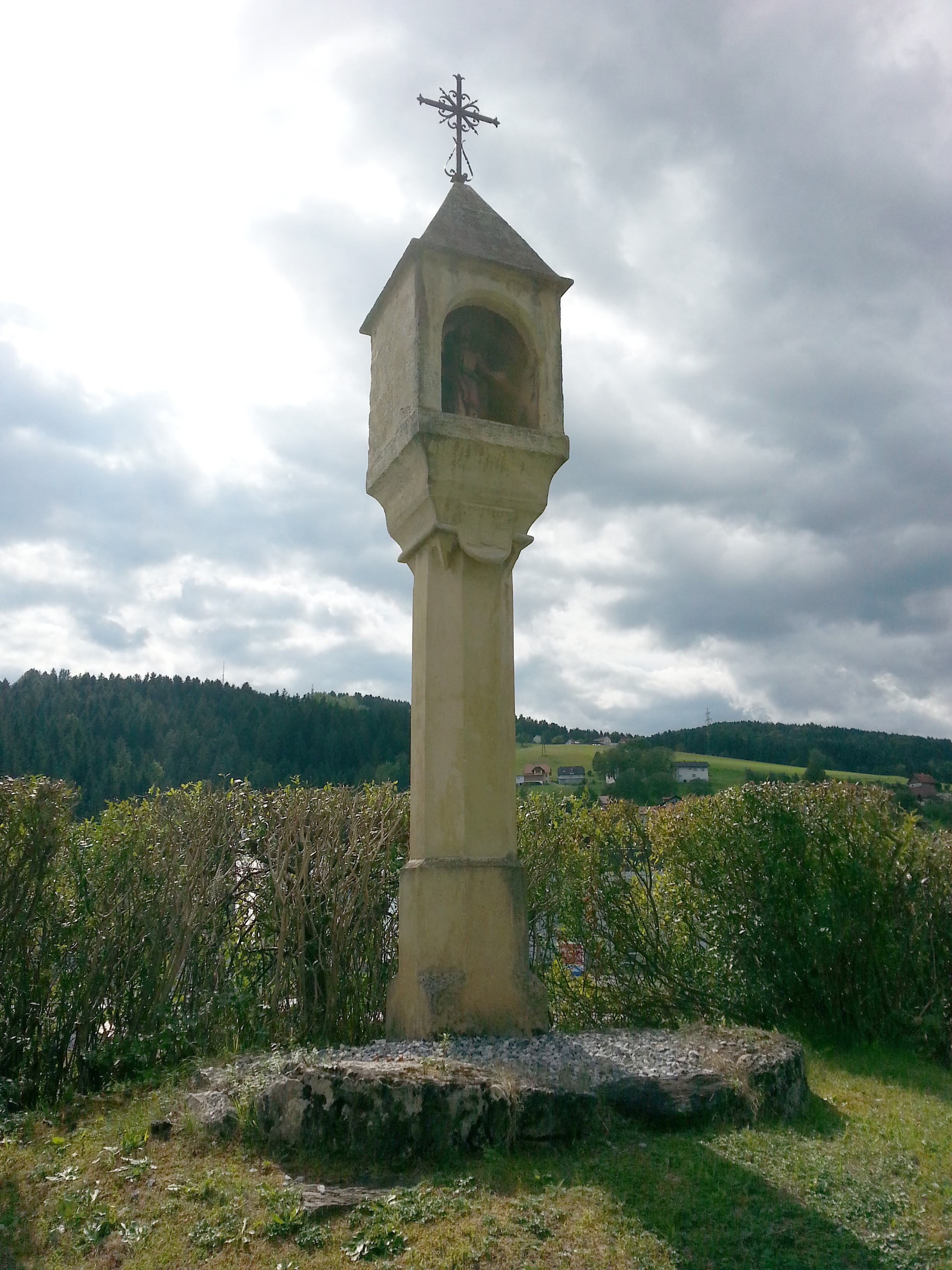 Der Bildstock bei der Heiligenblutkirche in Voitsberg - im September 2013